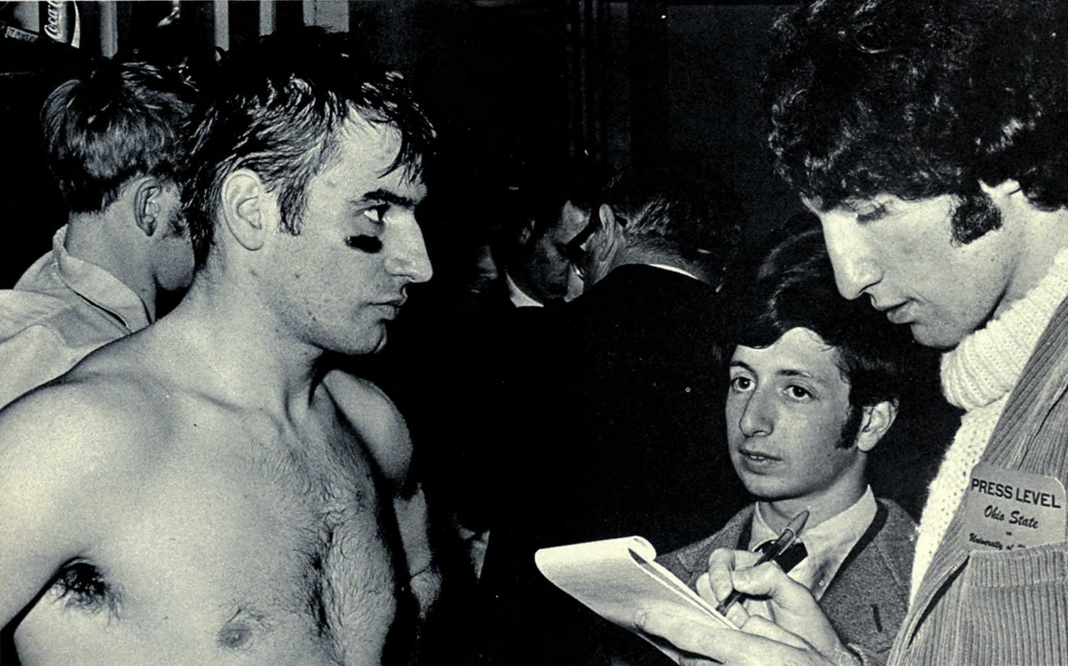 Photograph of Tom Curtis in press interview after 1969 Michigan-Ohio State game